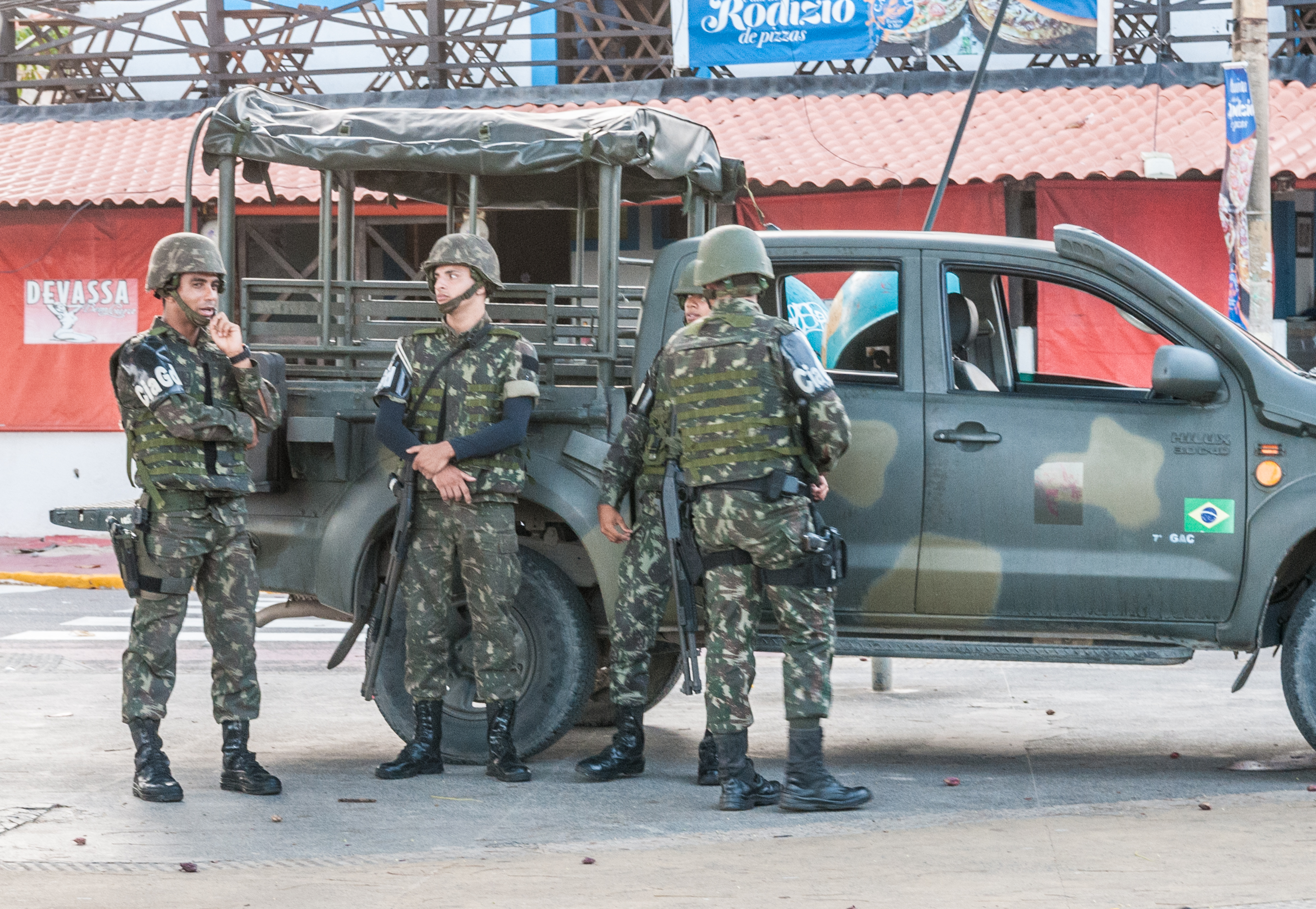 Militar army on Olinda, Pernambuco, Brazil